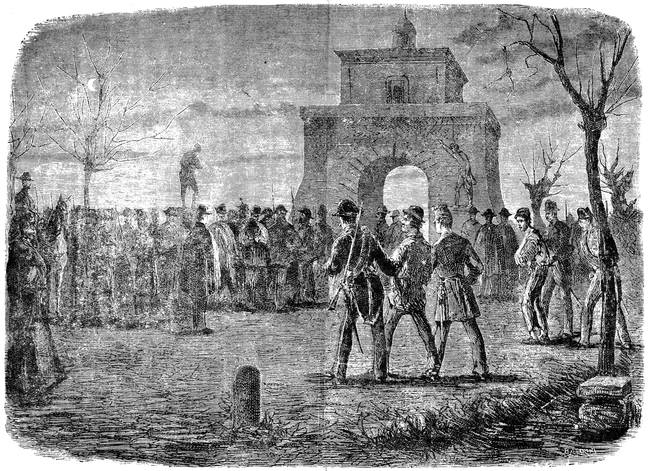 Arrest of the Banda del Matese after the insurrection in Letino and Gallo in April 1877.